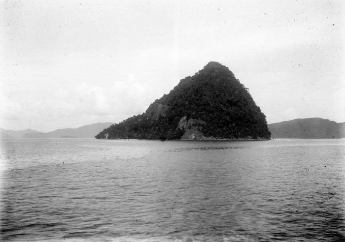 Island in Tapanuli Bay